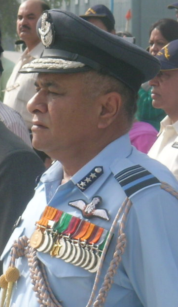 Air Chief Marshal Pradeep Vasant Naik is the current Chief of the Air Staff of the Indian Air Force. He took office on May 31, 2009, becoming the nineteenth Chief of Air Staff following the retirement of Air Chief Marshal Fali Homi Major.